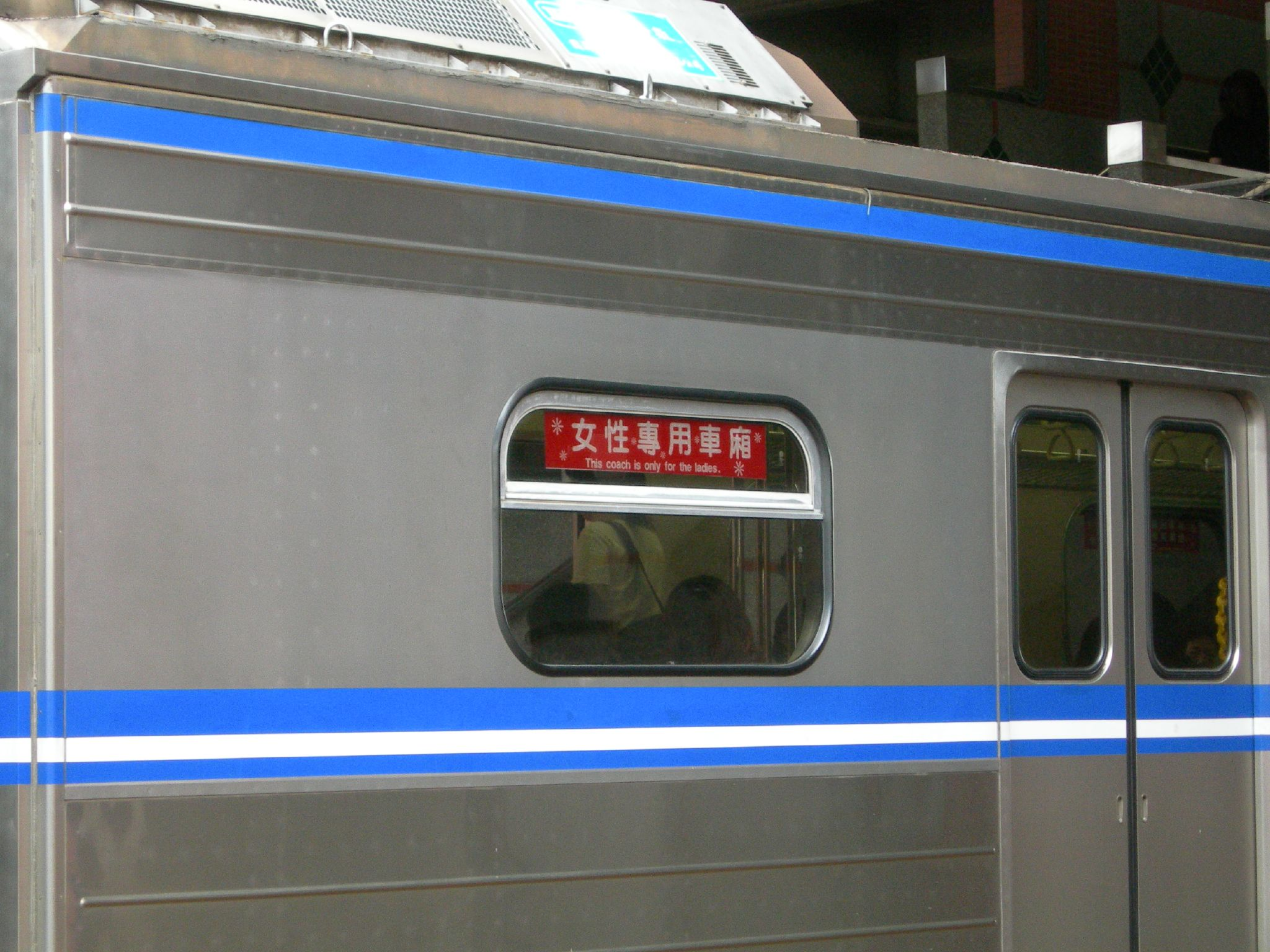 Women-only coach of TRA EMU500 and EMU600.